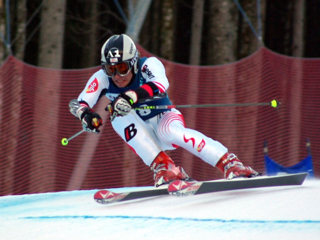 Austrian alpine skier Marcel Hirscher during the European Cup Giant Slalom in Hinterstoder, Austria on January 11, 2008.